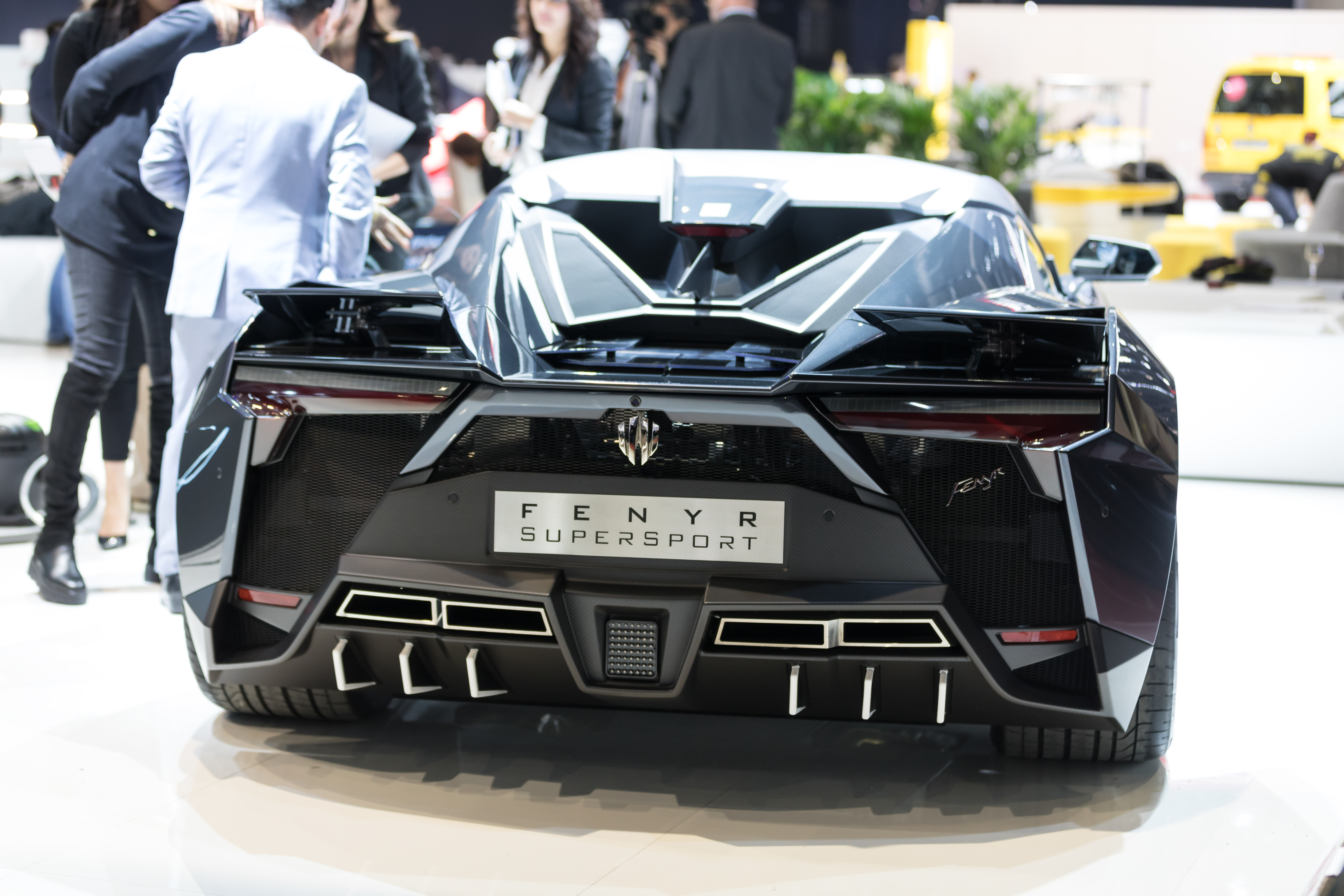 Geneva International Motor Show 2018